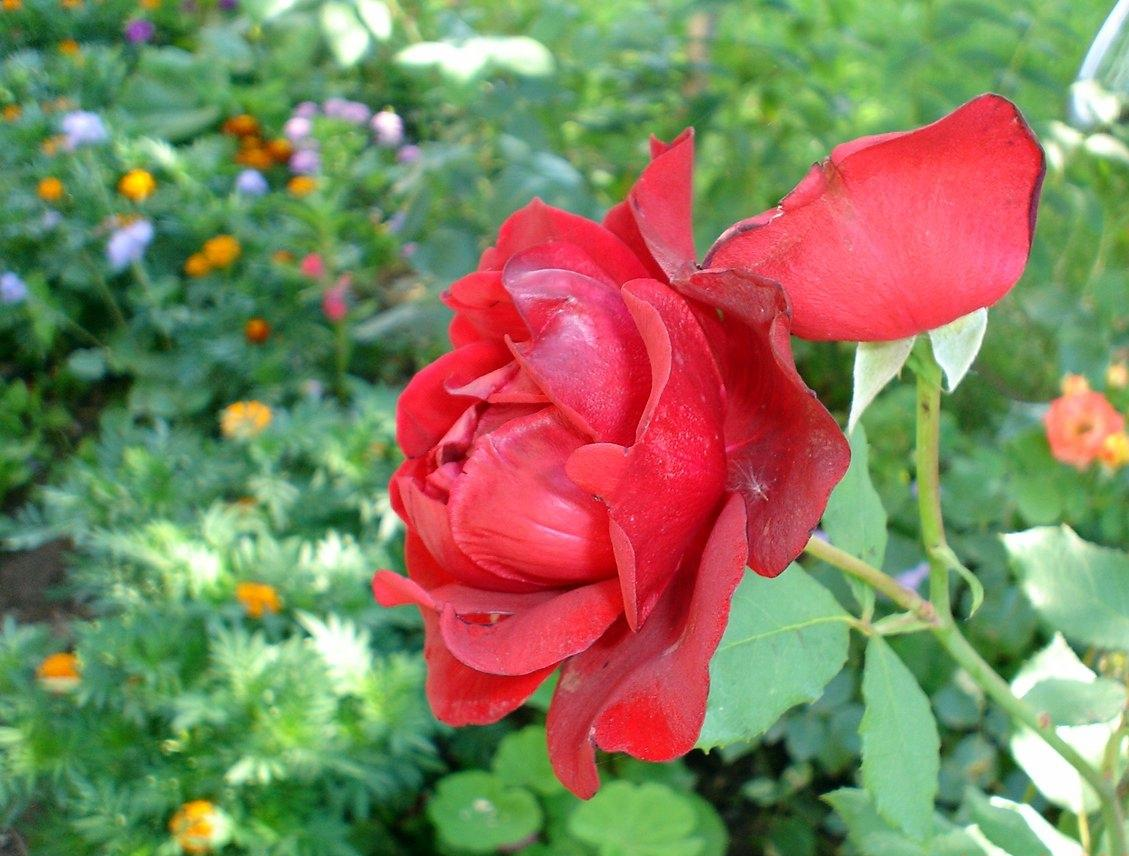 Rose Location: Kosovo